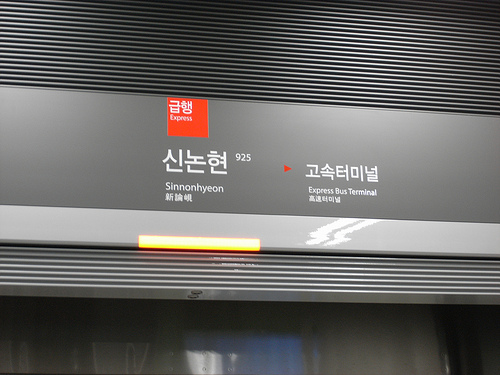 Sinnonhyeon station